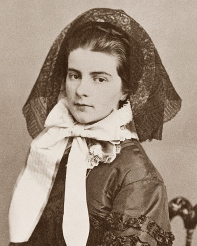 Marie, Queen of Naples (1841–1925)